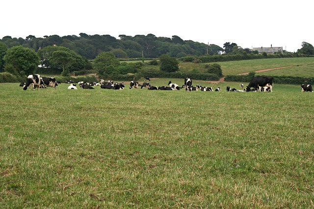 Cattle Grazing and Farmhouse. This photograph looks southeast across the square to the farmhouse of Trefusis on the right of the horizon.